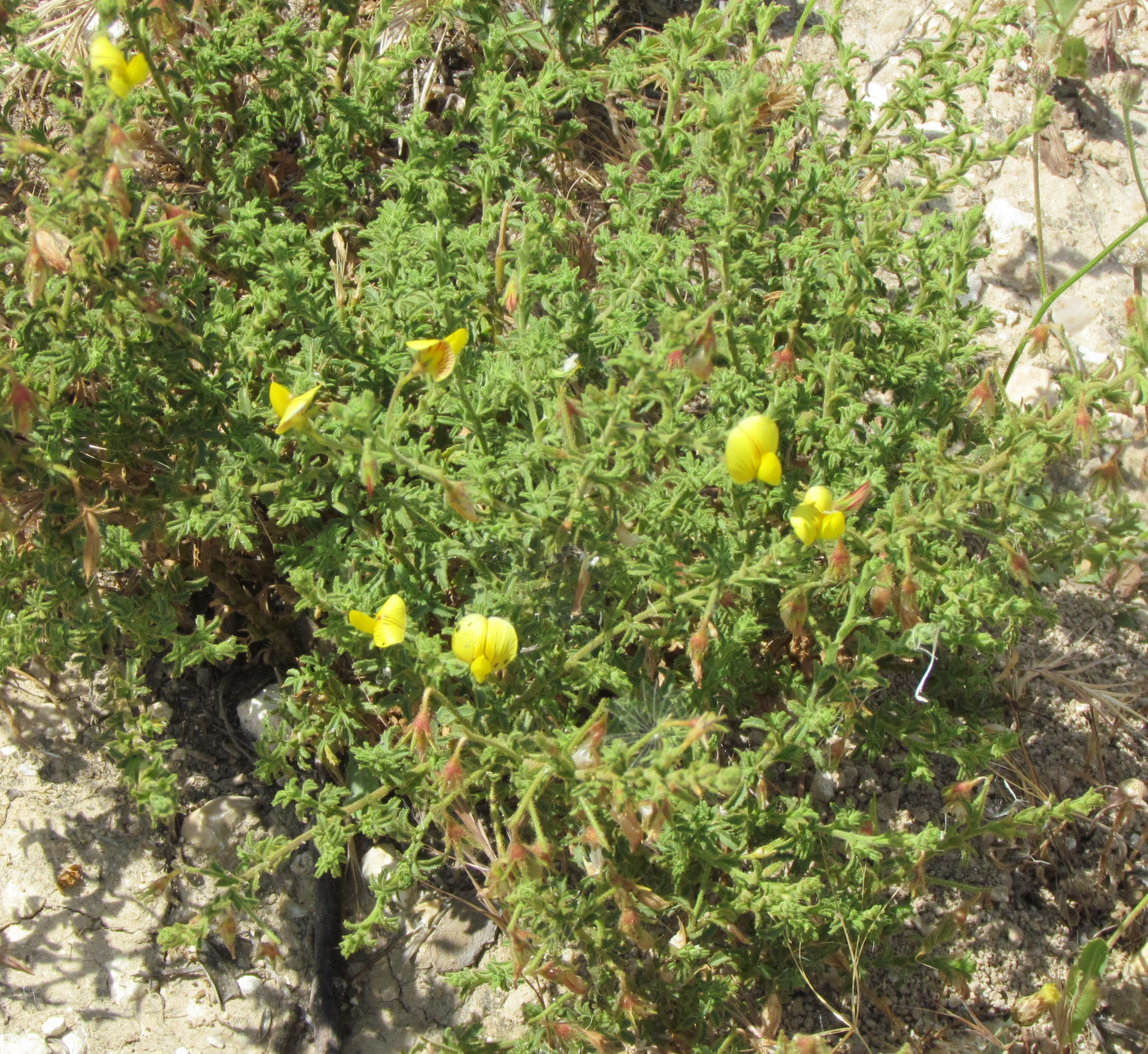 שברק דביק באזור ארמון הנציב בירושלים 10 במאי 2014